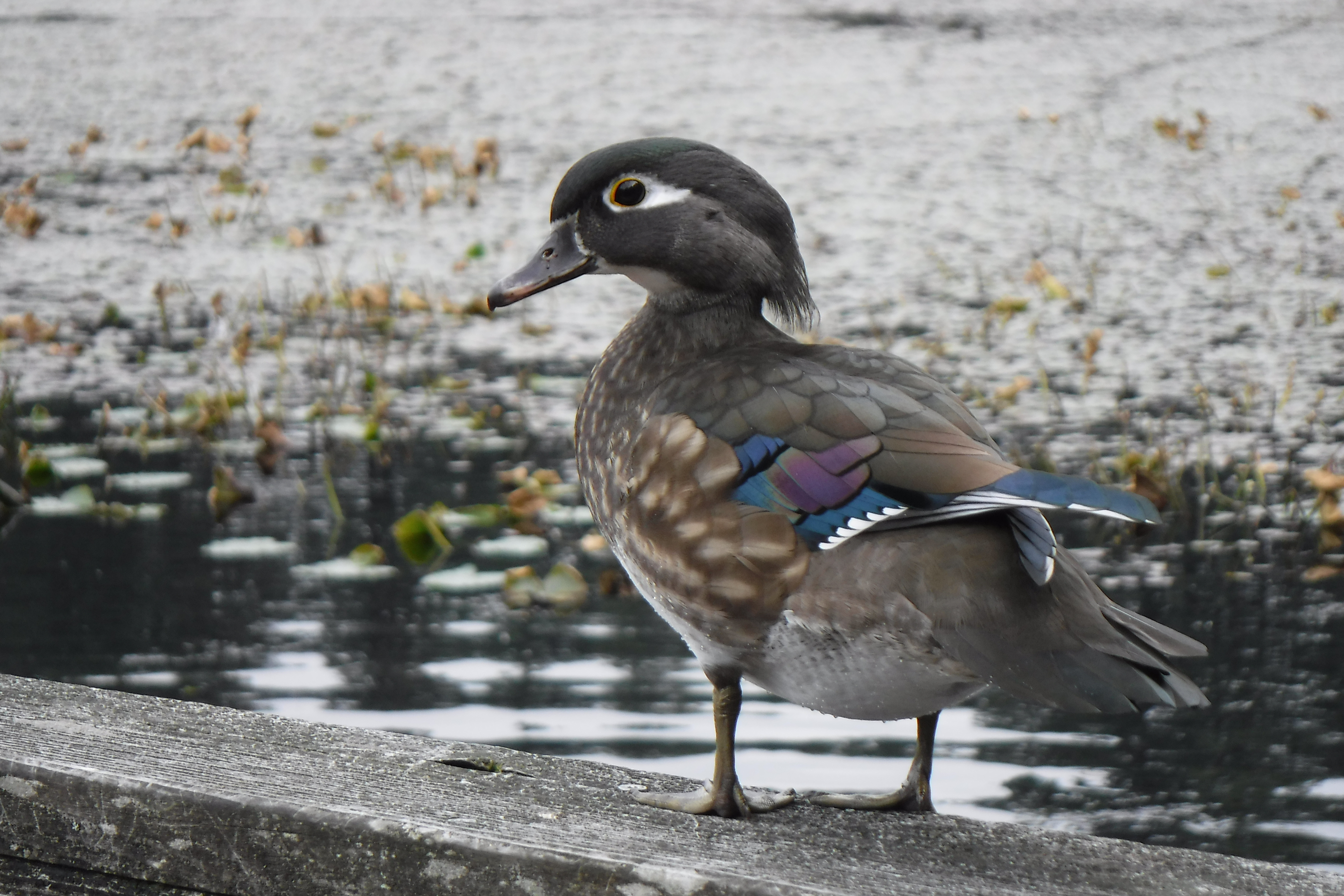 Female Wood Duck taken at Yellow Lake, Washington.